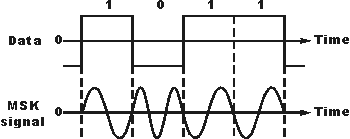 MSK modulation